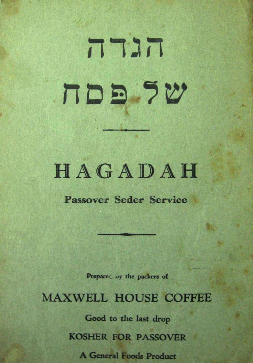 Front cover of a 1933 Maxwell House Haggadah.